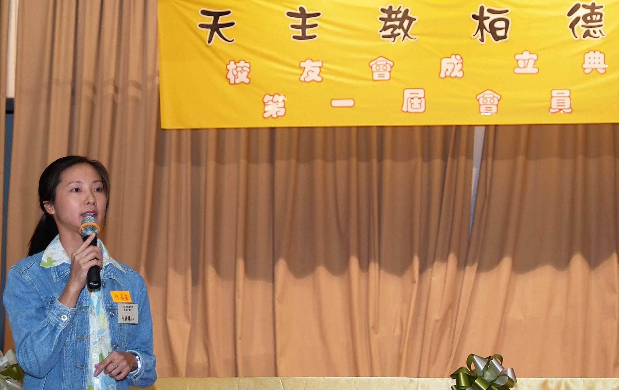 Miss HO Ka Lai speaking in Bishop Paschang Catholic School